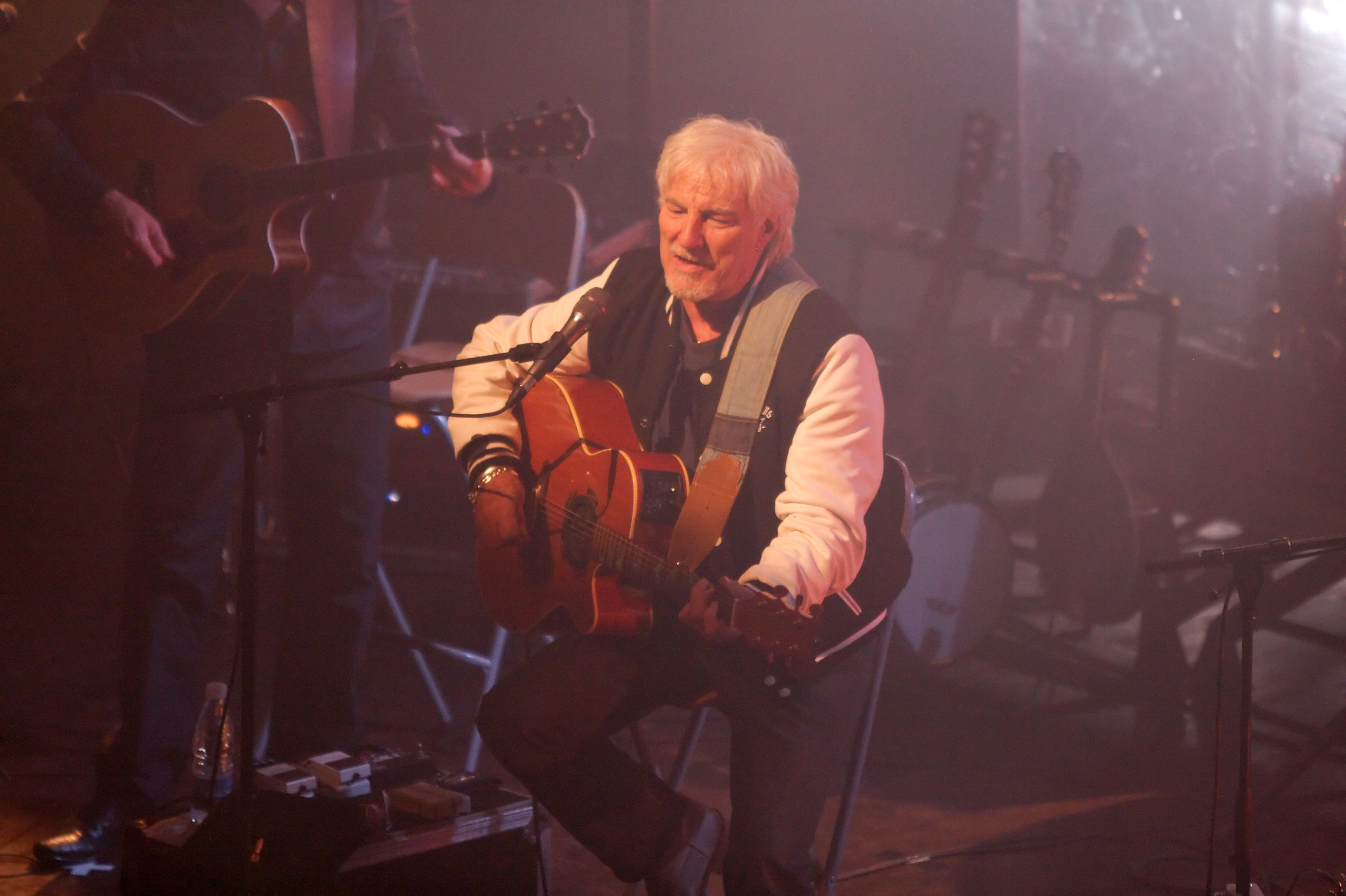 Hugues Aufray live at Aix-en-Provence (France) for the French song festival 2009.